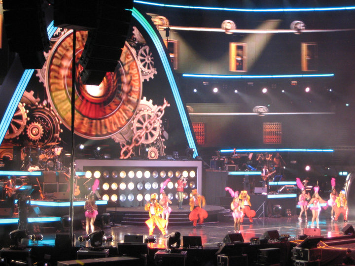 Jay Chou at Singapore performing on 3D enhanced stage